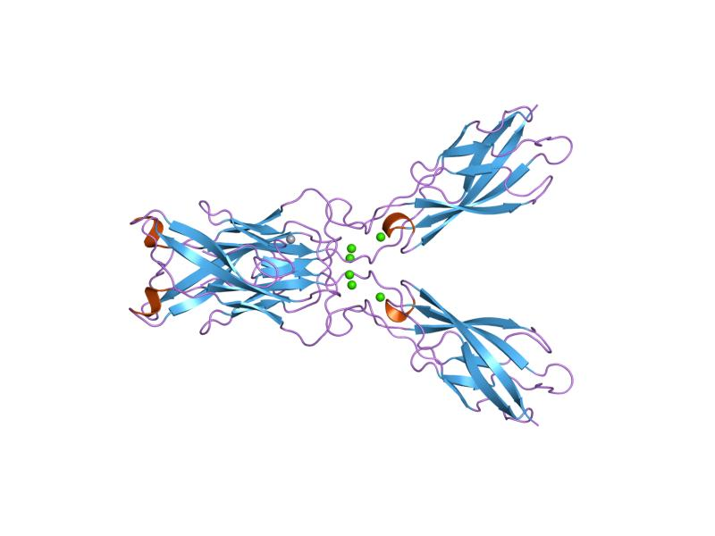 Cartoon representation of the molecular structure of protein registered with 1edh code.